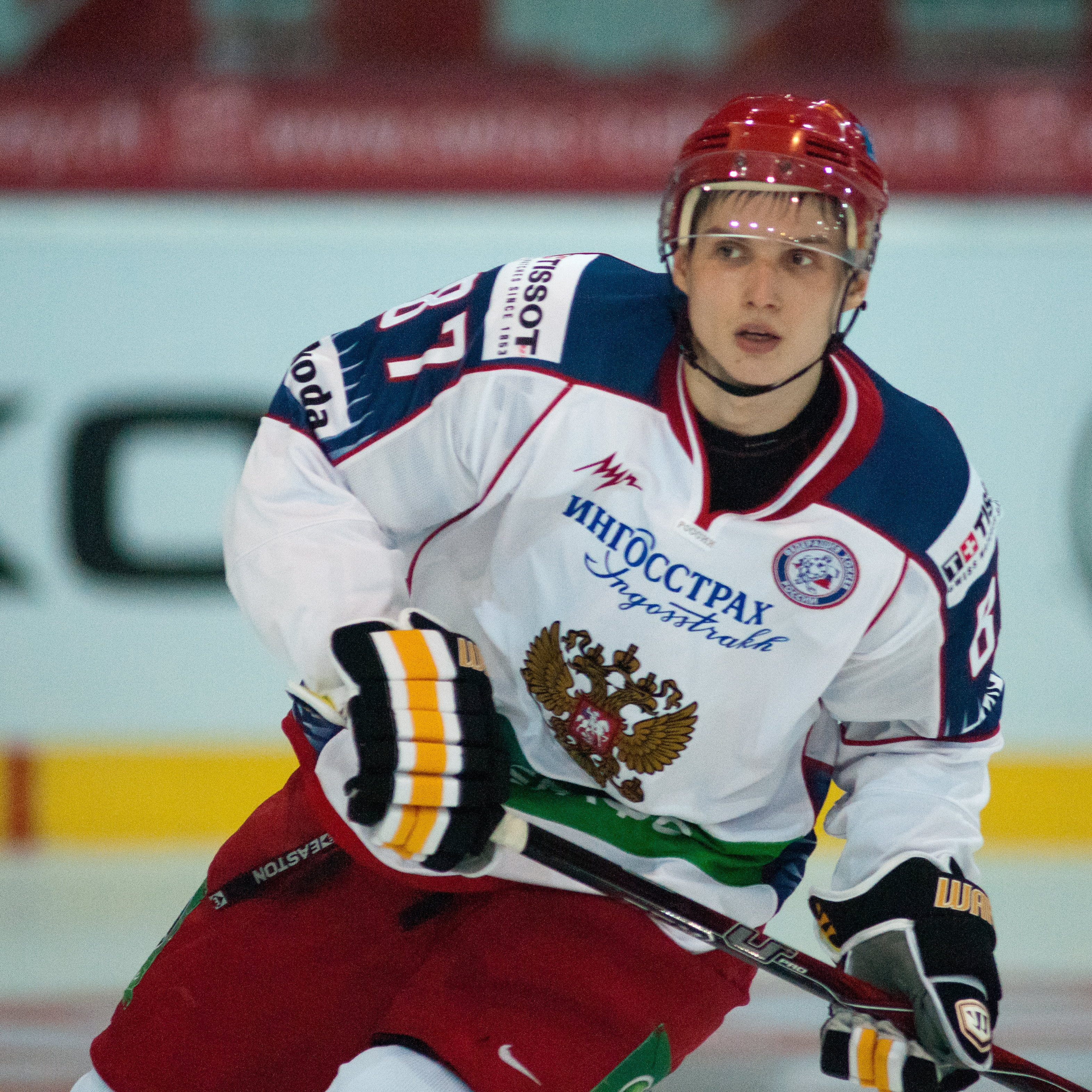 The making of this document was supported by Wikimedia CH. (Submit your project!) For all the files concerned, please see the category Supported by Wikimedia CH. Switzerland vs. Russia, 8th April 2011